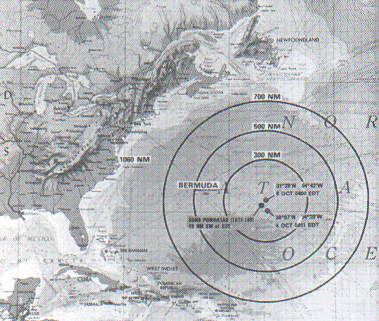 Position of tug Powhaten is shown to the southwest of last K-219 position. (U.S. Navy Photo)